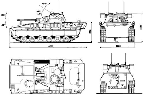 Scheme of Dardo IFV, used by italian army.